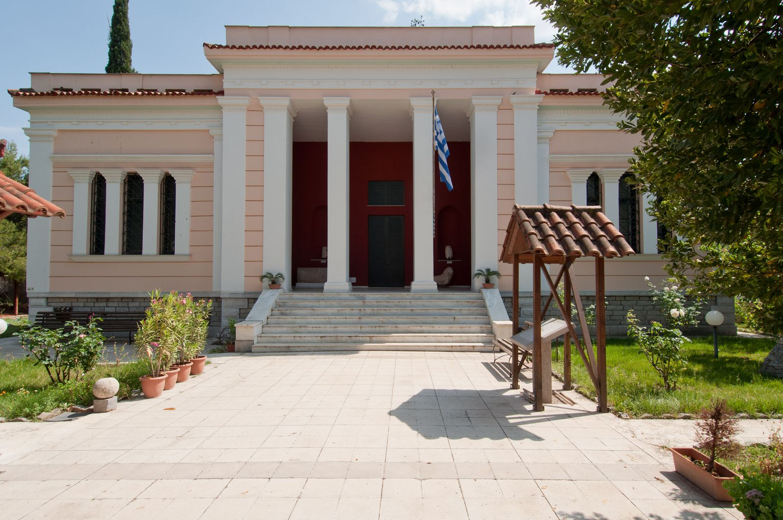 Archaeological Museum of Almyros - front view